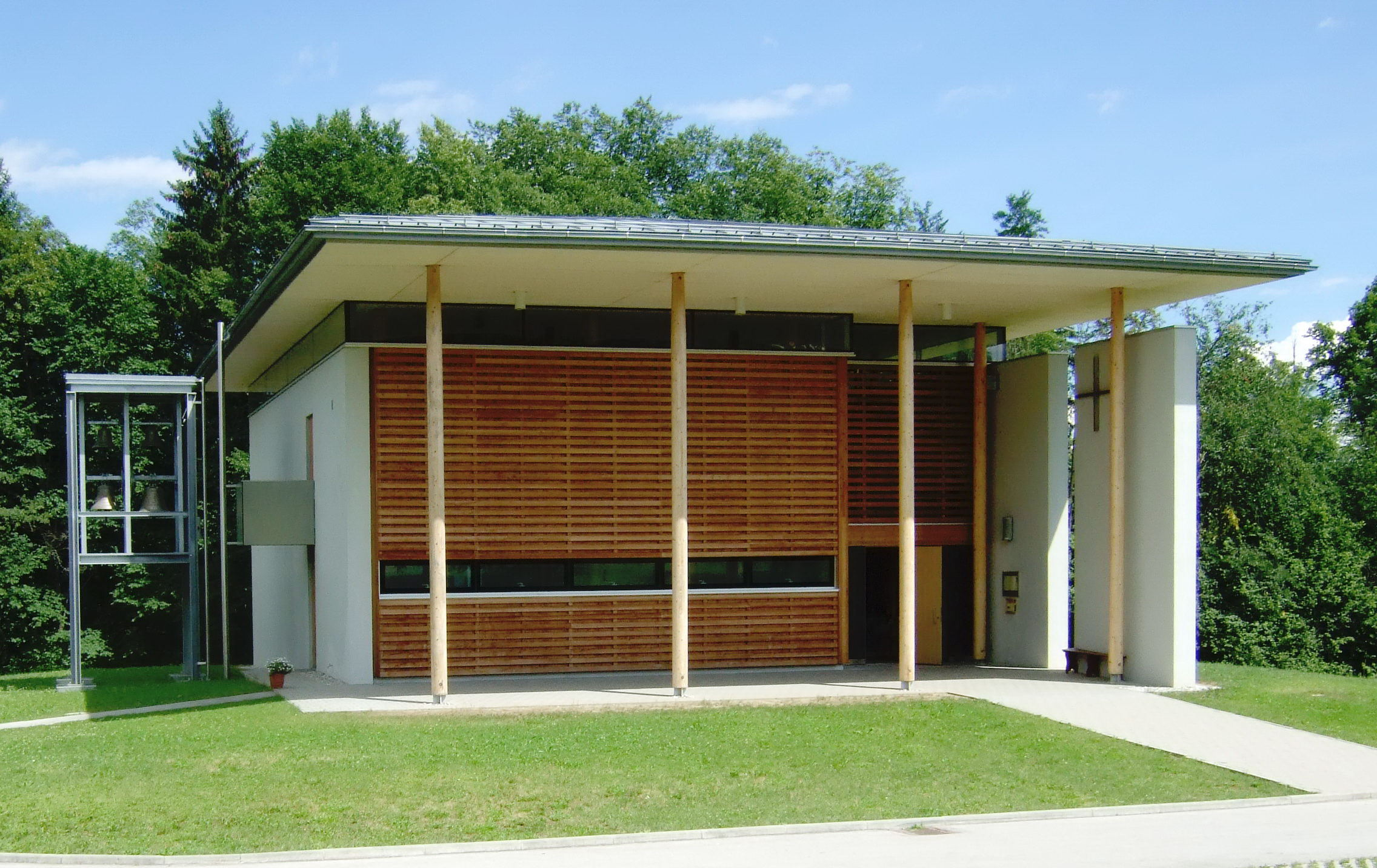 Modern church at Damtschach, municipality Wernberg, district Villach Land, Carinthia, Austria